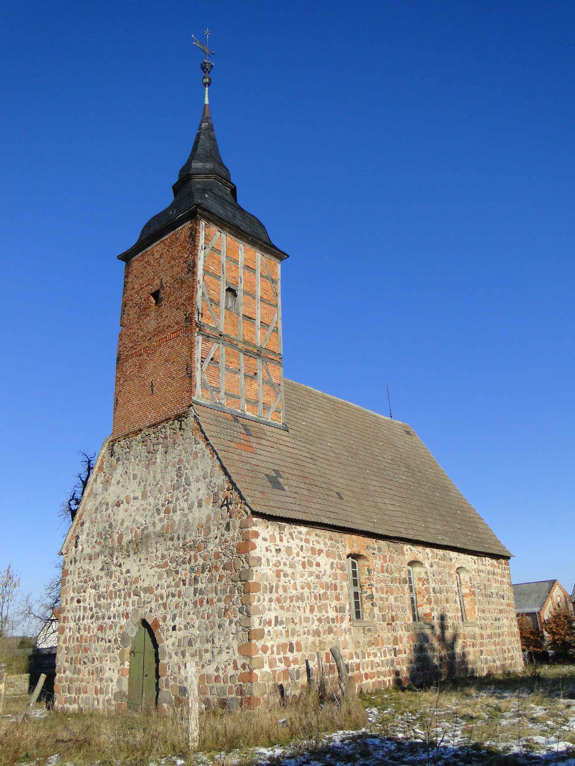 Church in Sandhagen, district Mecklenburg-Strelitz, Mecklenburg-Vorpommern, Germany